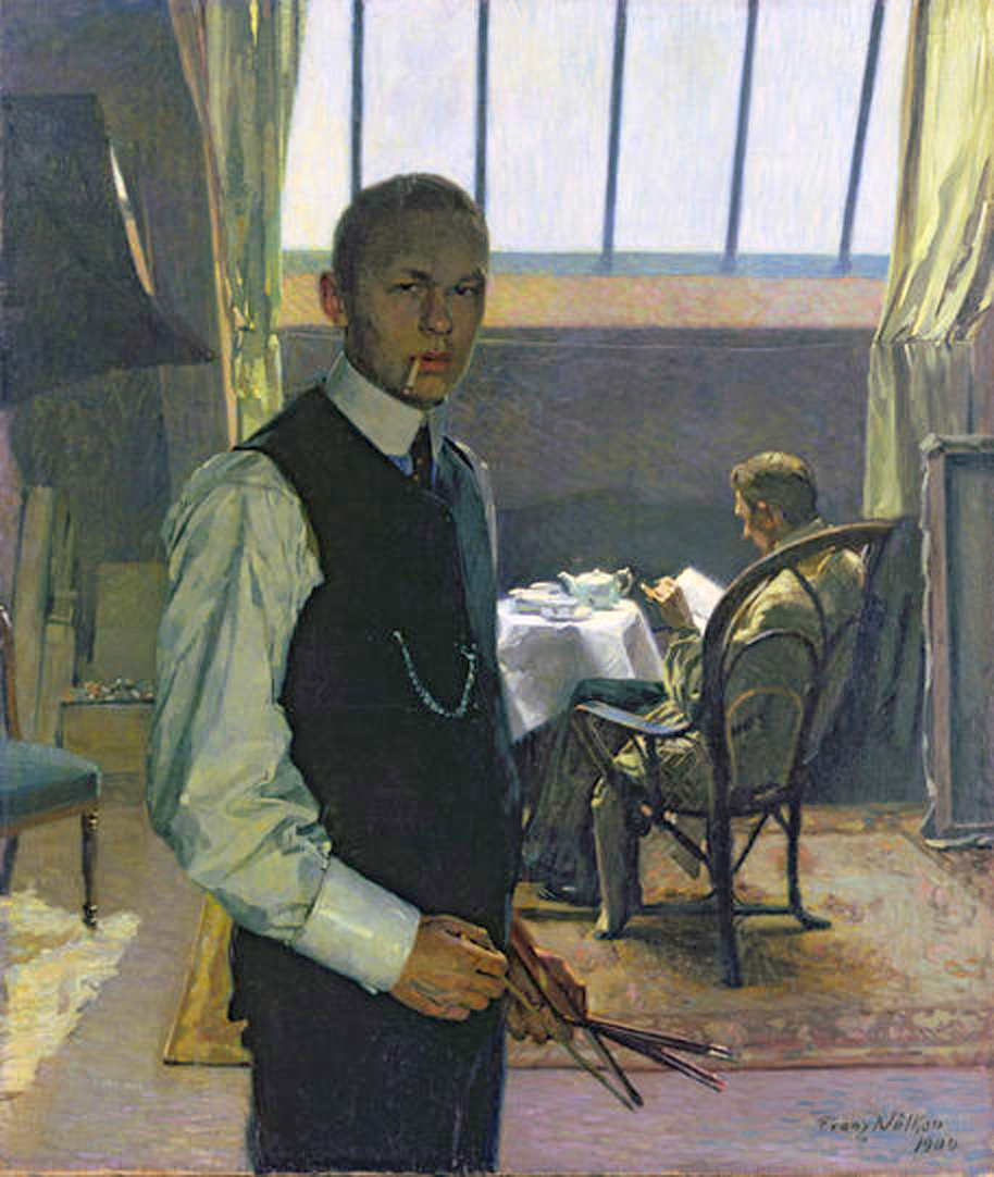 Seated in the background is the artist's friend, the artist and writer F. Ahlers-Hestermann